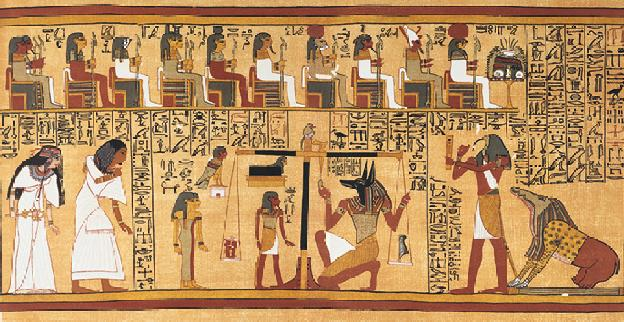 Book of the Dead